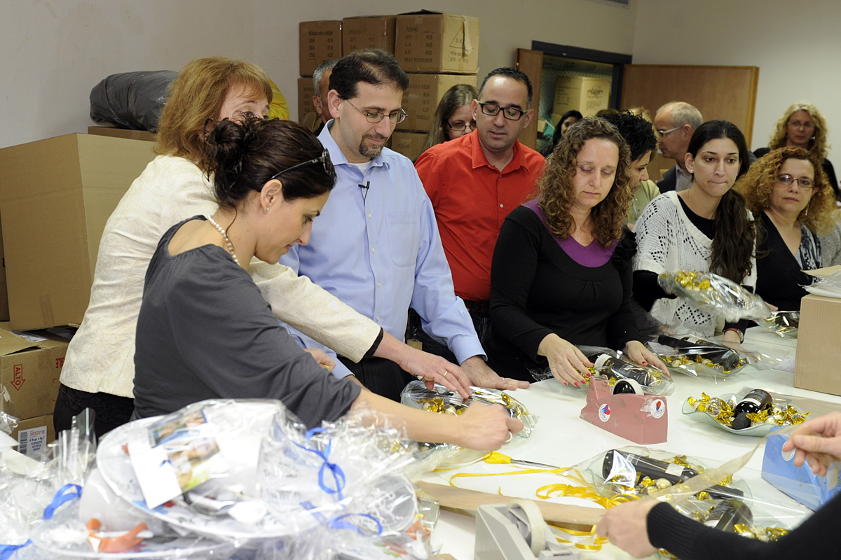 Ambassador Daniel Shapiro reinforced the importance of Beit Issie Shapiro (BIS) Ra’anana, as an innovative agent for social change. The March 20 visit reiterated the message of US special advisor for international disability rights Judith Heumann and the importance of inclusion in the workforce. Director of BIS Jean Judes and the ambassador discussed BIS efforts on disability legislation, and promoting awareness of the rights of people with disabilities. Ambassador Shapiro also joined discussions on barriers associated with social attitudes, and efforts to address accessibility issues as a way to increase peace and reconciliation and reduce conflict between Israel, the West Bank and Gaza. Beit Issie Shapiro is proof that everyone can add value to a society, and societies that allow all members to attain their fullest potential are better off for it.